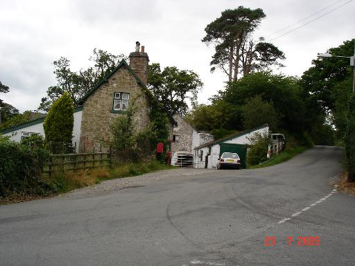 Dolwen junction. Houses at the junction of B5383 and B5381 at Dolwen